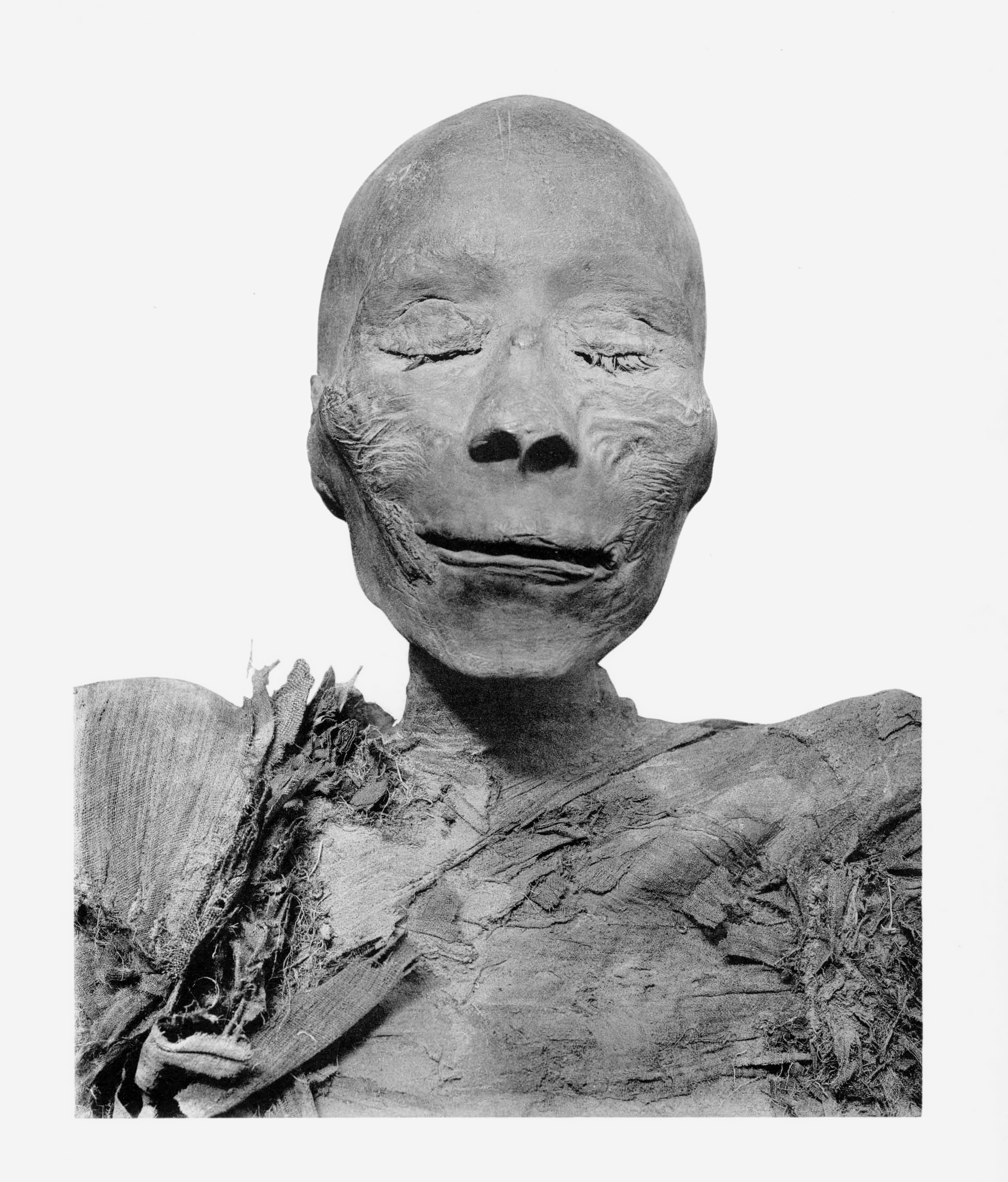 Head of mummy of parapoh Thutmose I.